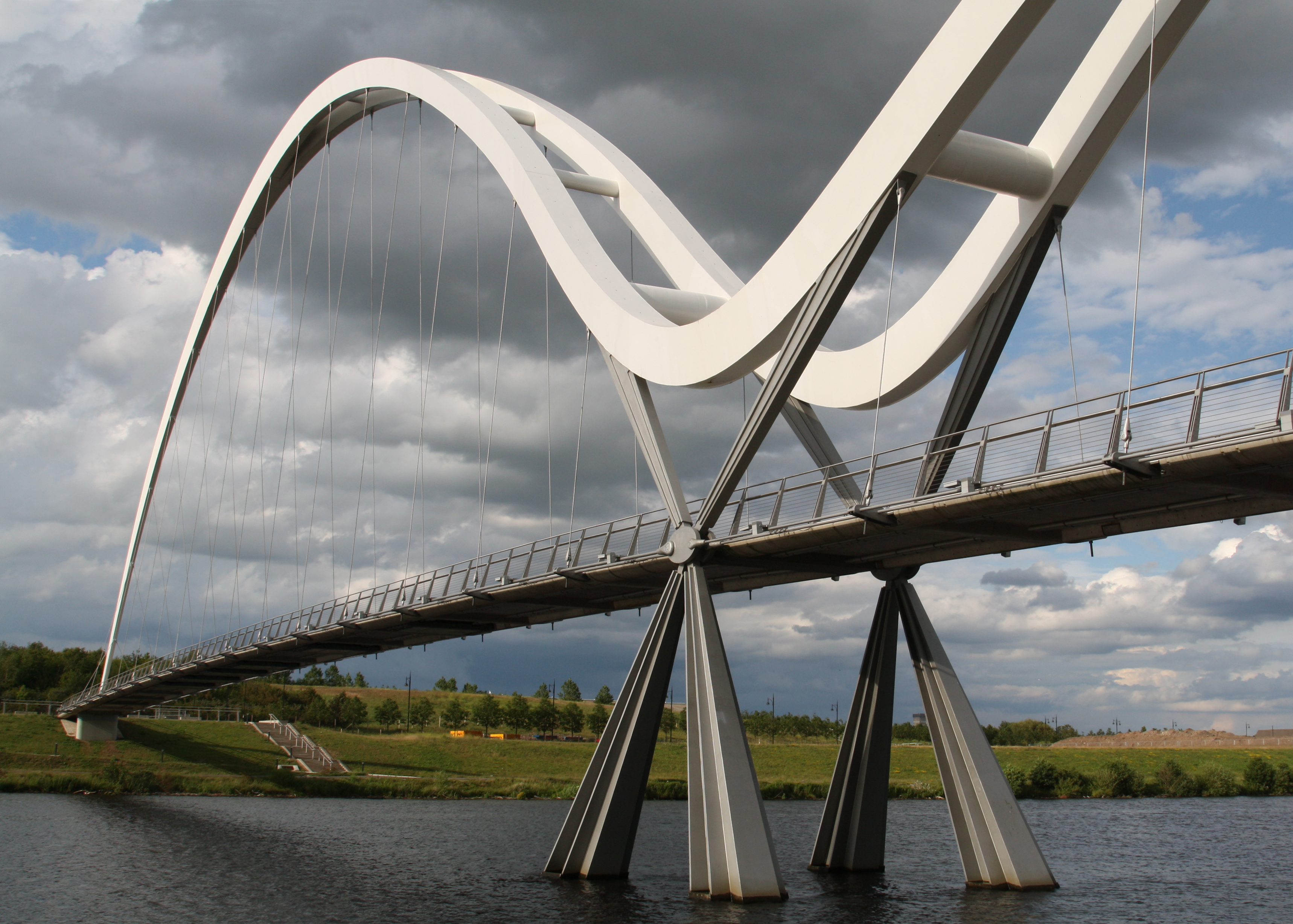 The ∞ Infinity Bridge ∞ (Stockton) catching the evening light. For our Photo Technique Group's Challenge No : "My Depicture" .